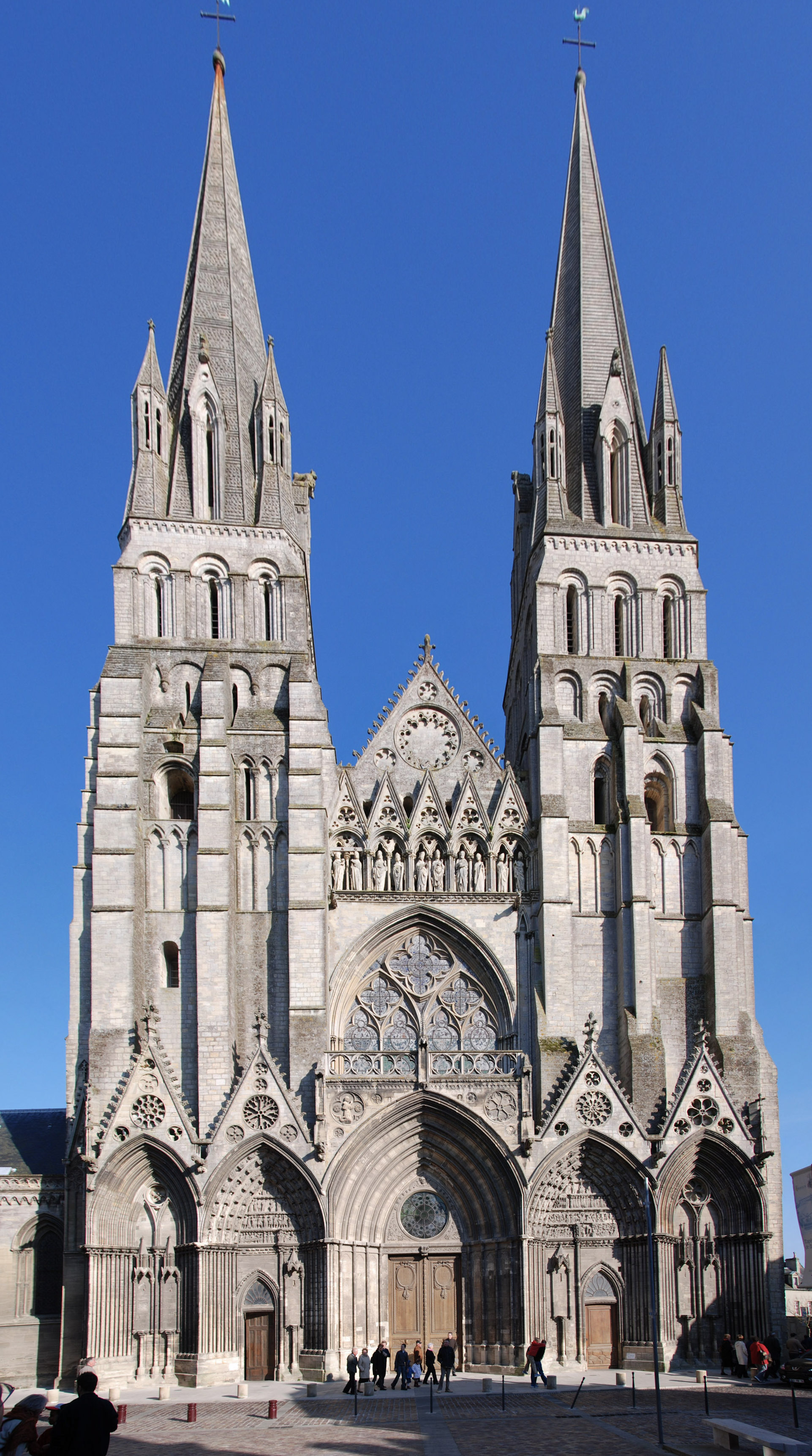 Cathedral of Bayeux, facade assembly of 4 images